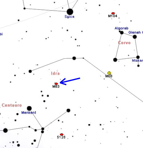 M83